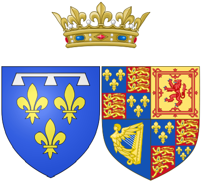 Arms of Henriette of England as Duchess of Orléans